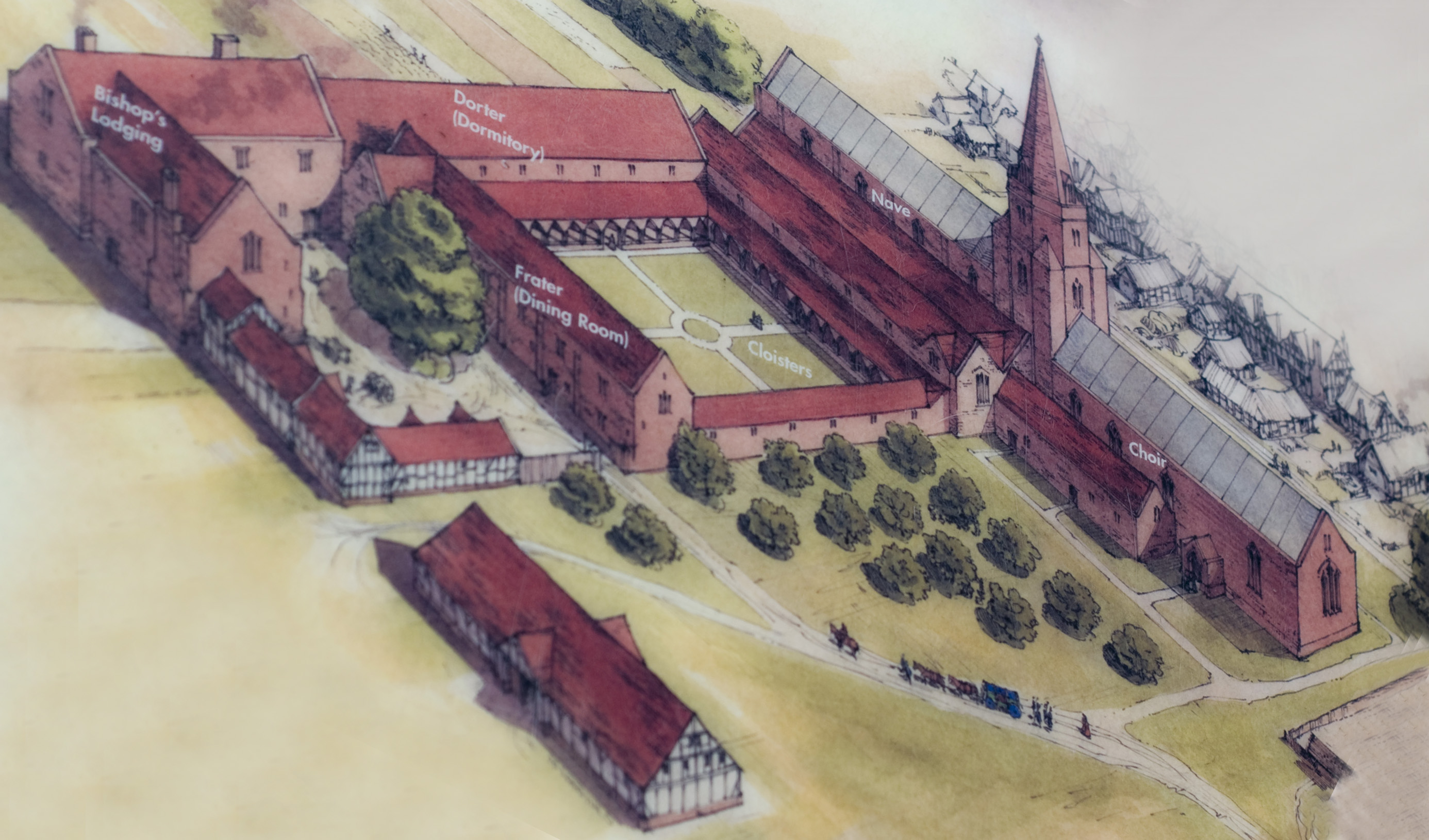 An artists impression of what the Friary Site would have looked like before dissolution.